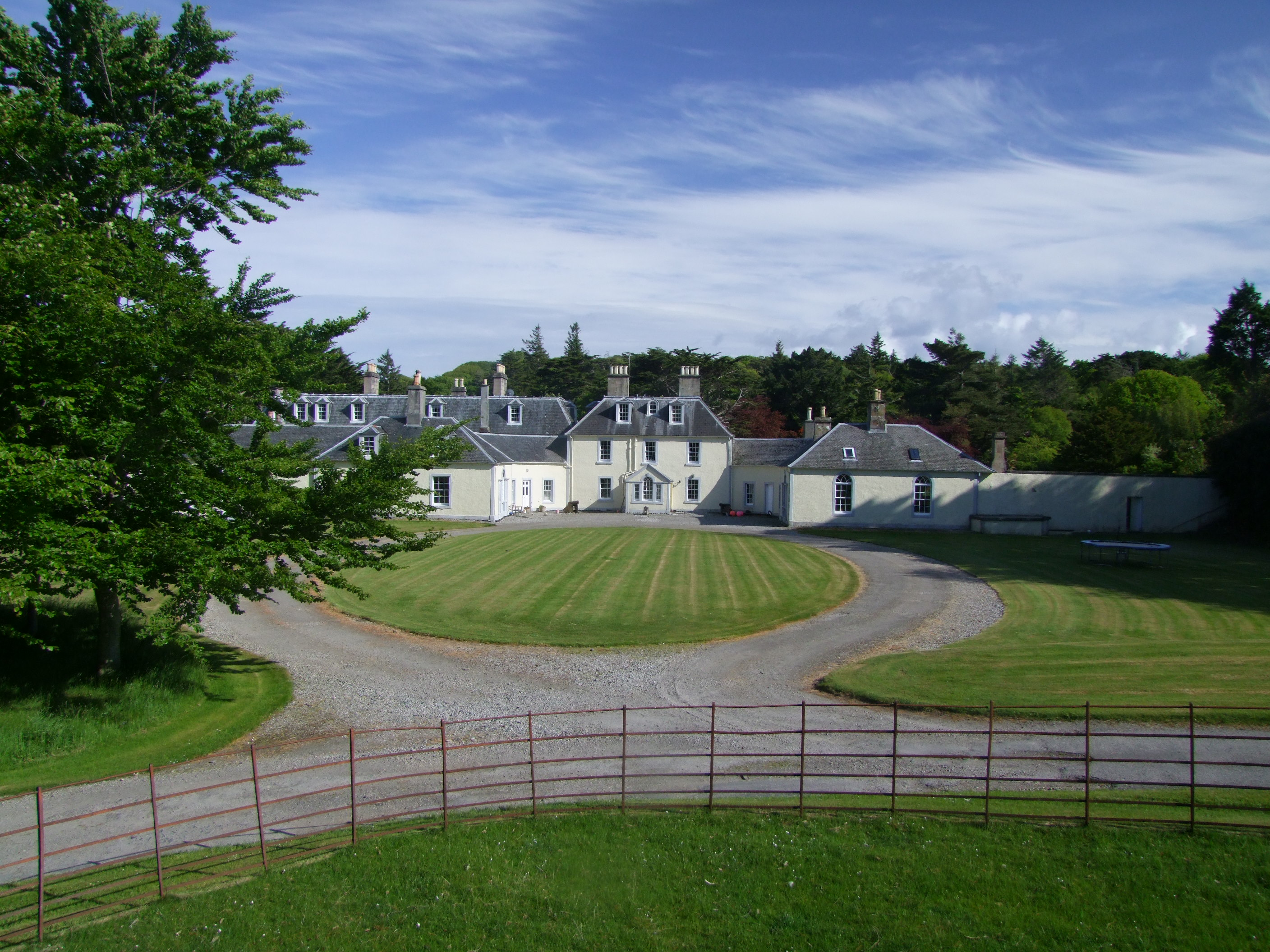 Colonsay House, Isle of Colonsay, Argyll, Scotland